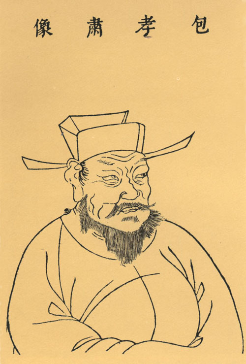 A portrait of Bao Zheng from Sancai Tuhui.